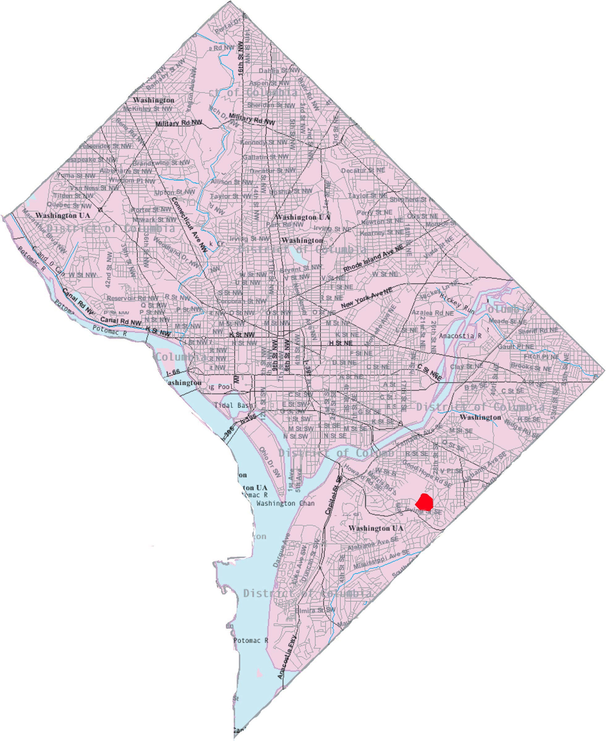 This image is a modified version of a self-generated reference map from the U.S. Census Bureau's American Factfinder at by Wikipedia user Msclguru.